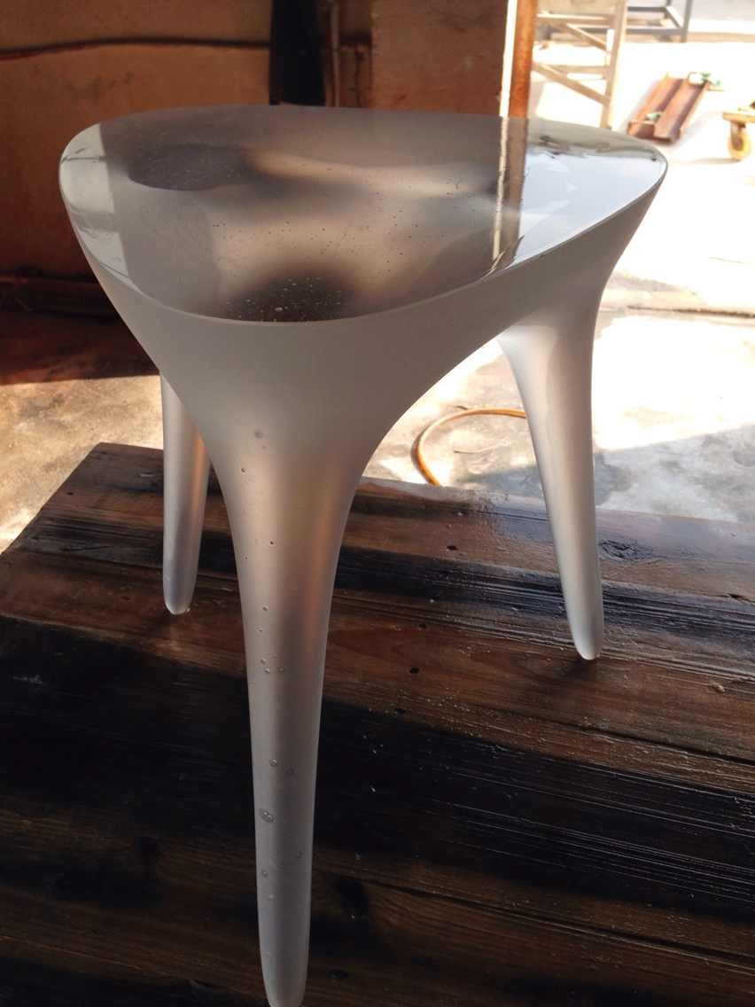 cast glass (lead glass) table developed using NURBS geometry and traditional lead glass casting (lost wax) technology. sand blasted legs